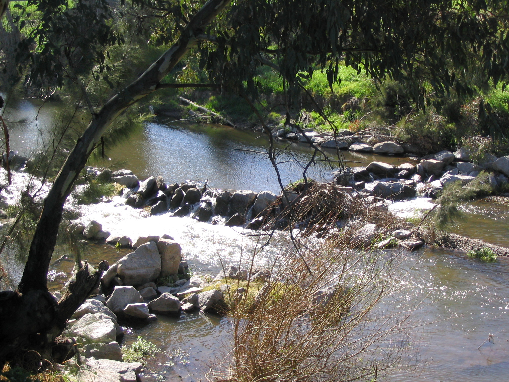 Cockburn River near Tamworth, NSW, Australia (a tributary of Peel River / Namoi River). Photo shows a constructed rock chute.